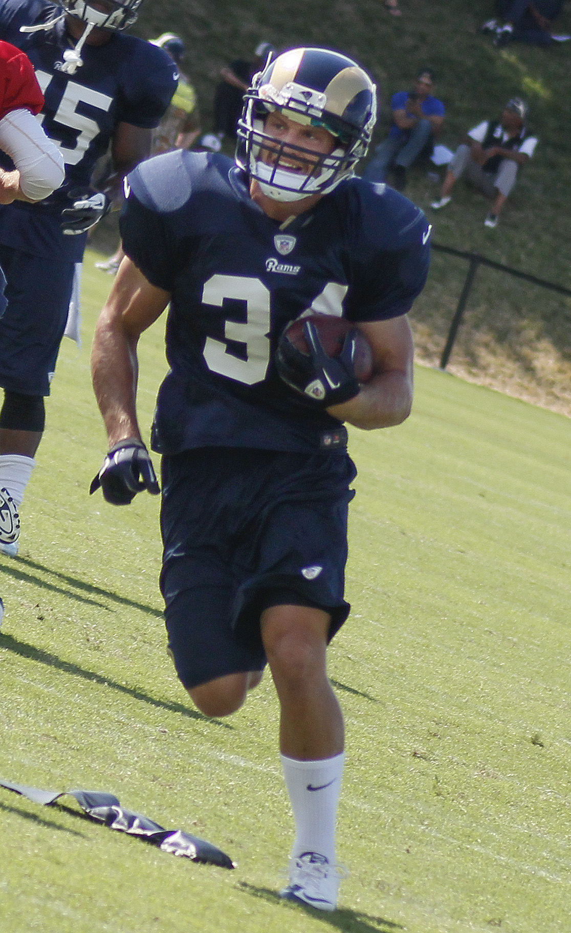 2013 Rams RB Chase Reynolds.